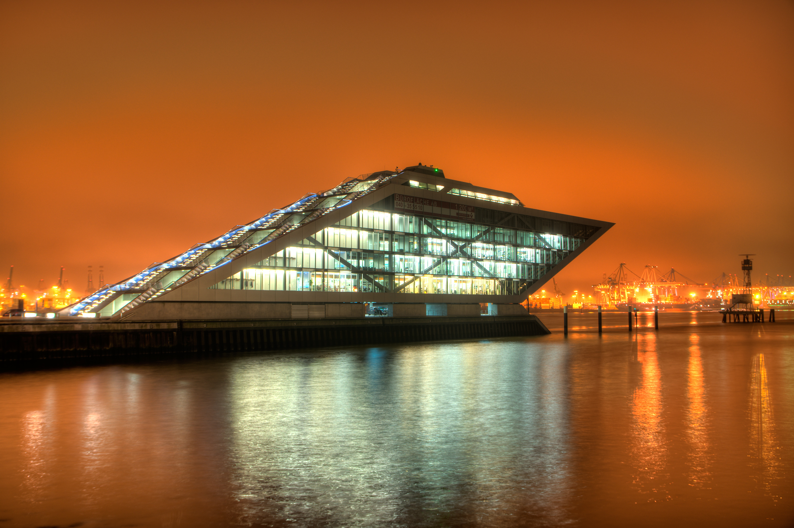 Dockland in Hamburg